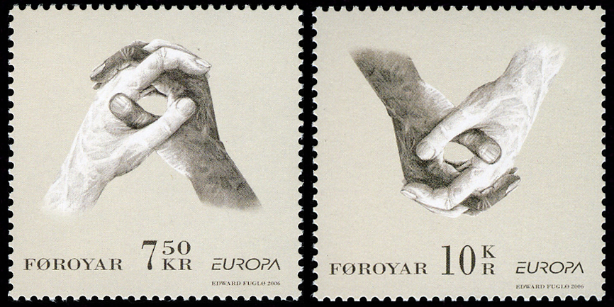 Postage stamps of the Faroe Islands, 2006. Issue on the program Europa.